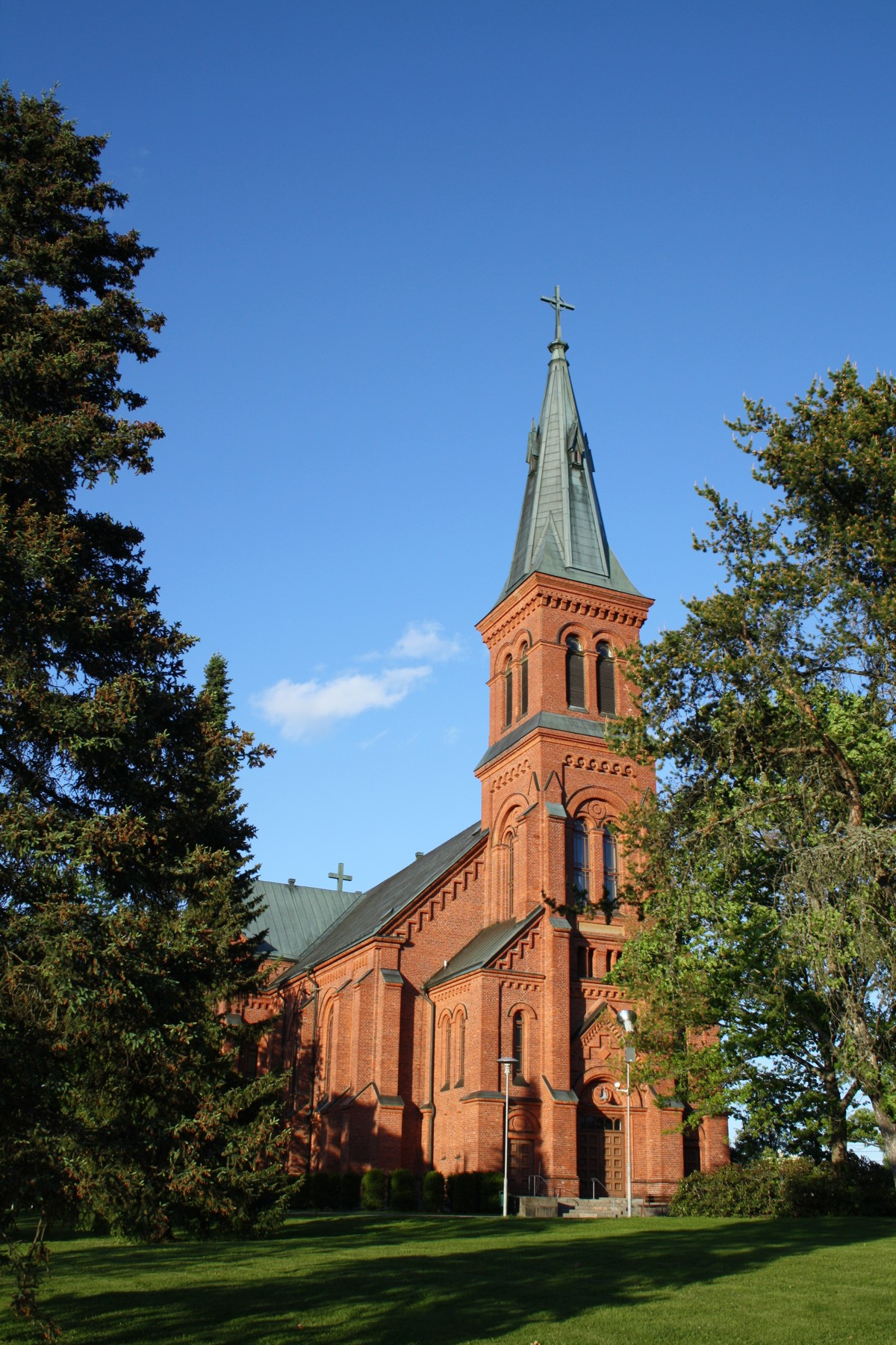 Sipoo new church, Sipoo, Finland.